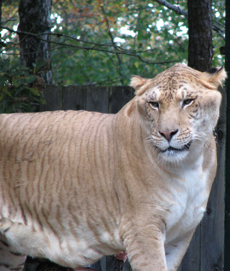 Yes, that's right. Liger. The Guinness World Record Holder. (Ali West tags: King Richard's; Faire; Liger; Hercules; Hercules the Liger)